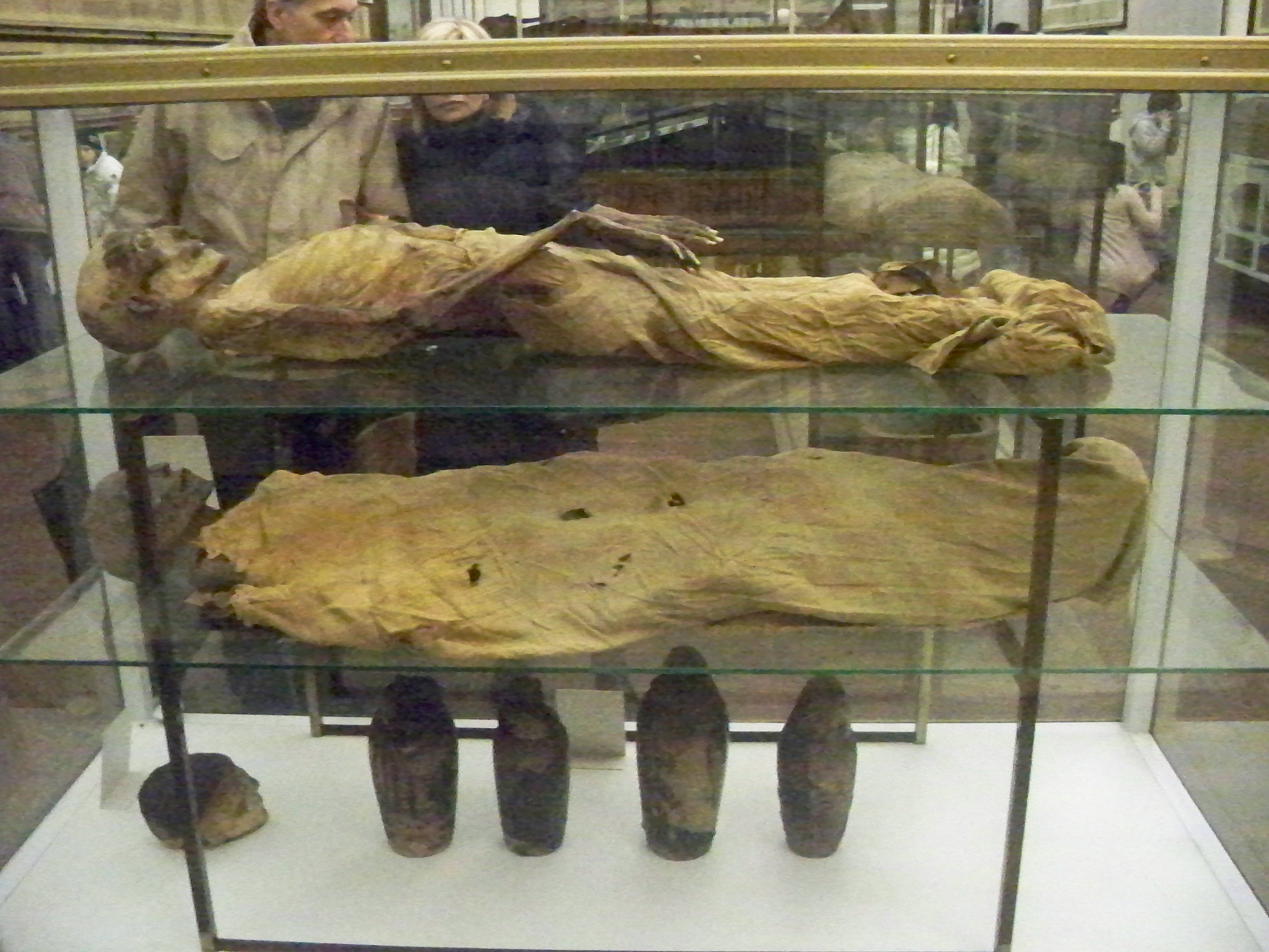 Mummy at Museo Egizio, Turin.